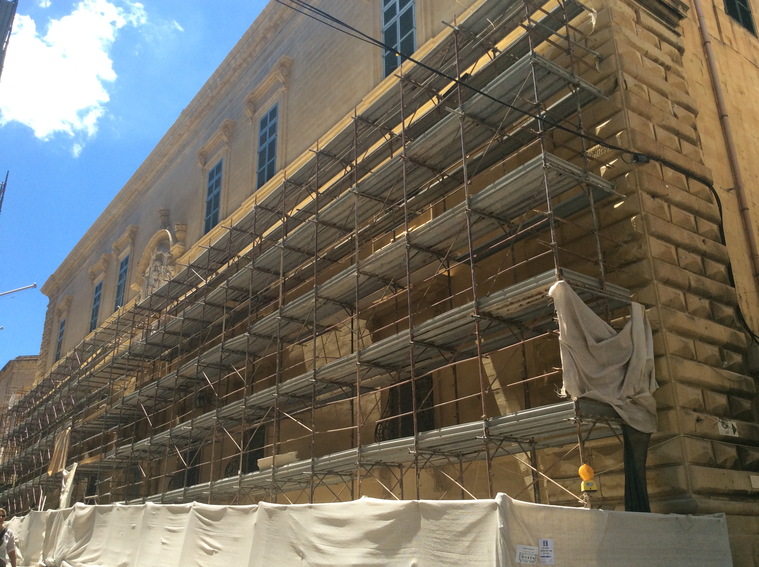 Auberge d'Italie finalization of restoration of front façade